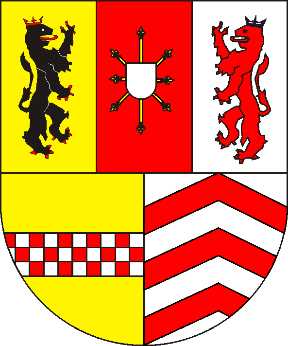 coats of arms of Jü;ich-Kleve-Berg (1543-1609); 1: duchy of Jülich; 2: duchy of Kleve; 3: duchy of Berg; 4: county of Mark; 5: county of Ravenberg